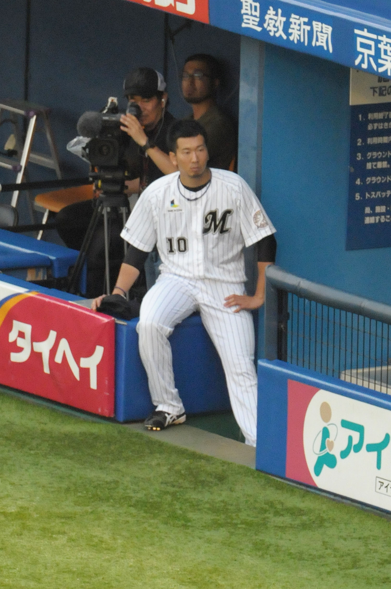 Shoitsu Ohmatsu, outfielder of the Chiba Lotte Marines, at Chiba Marine Stadium.